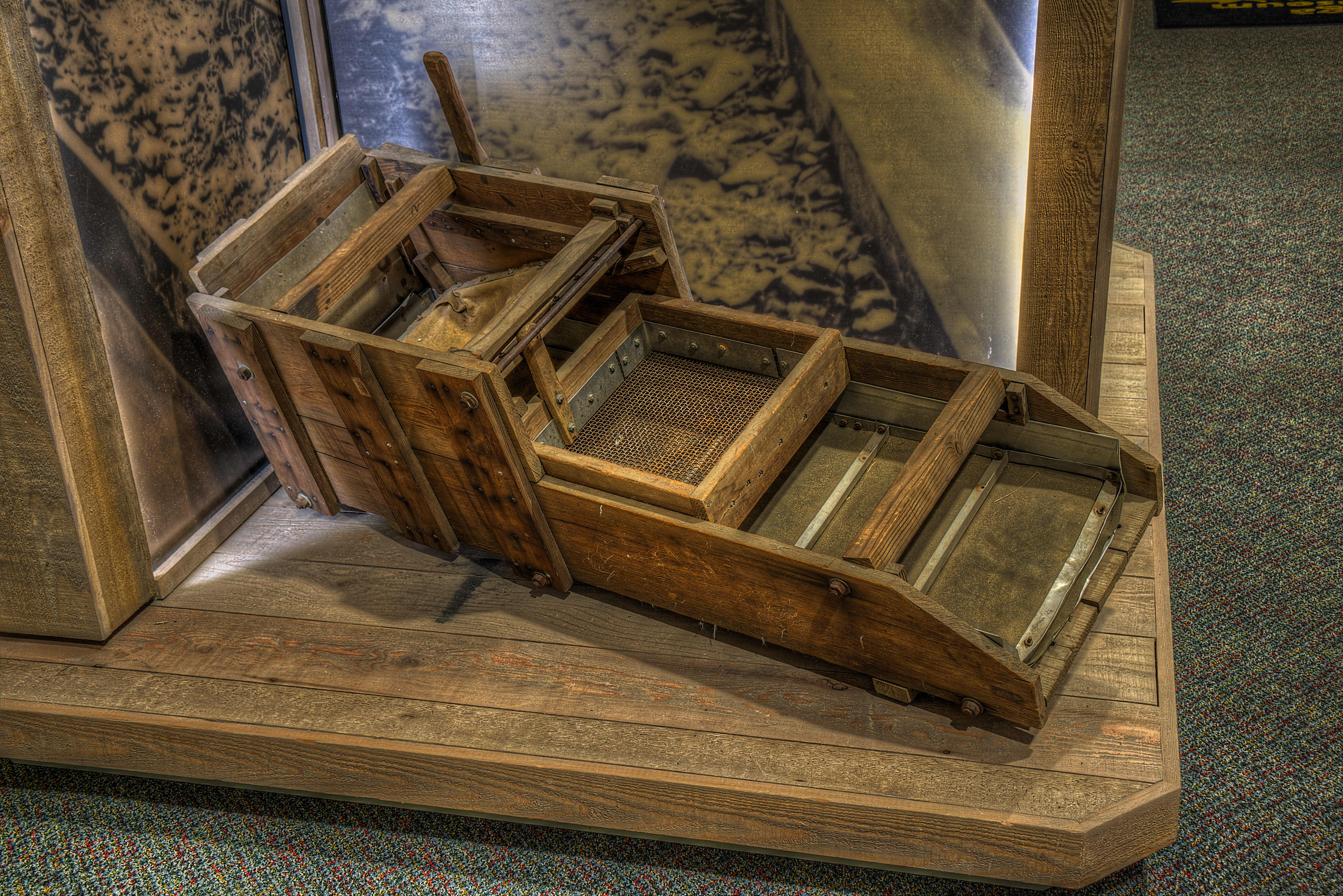 Rocker Box